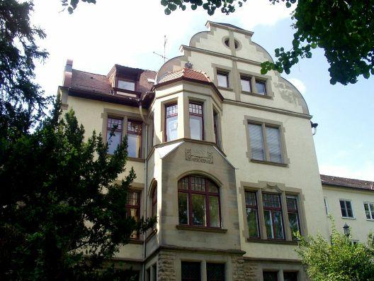 theological seminary, Diocese of Rottenburg-Stuttgart